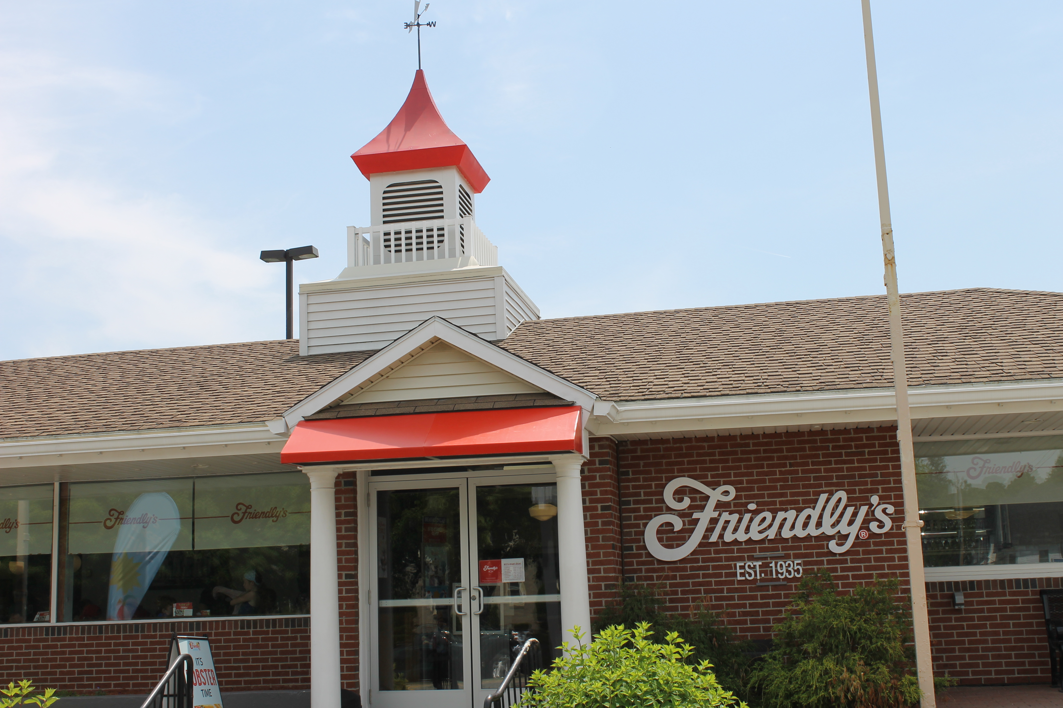 I took photo of Friendly's Restaurant in Augusta, ME, with Canon camera.